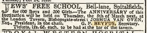 Advertisement for the anniversary for the founding of the Jews' Free School. Dated February 25, 1829